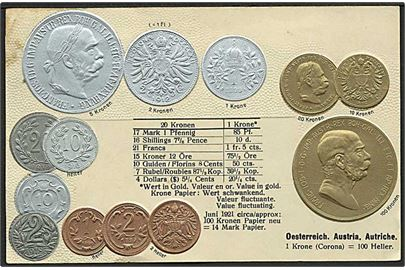 A postcard depicting the coins of the lands of the Austrian Crown 👑.